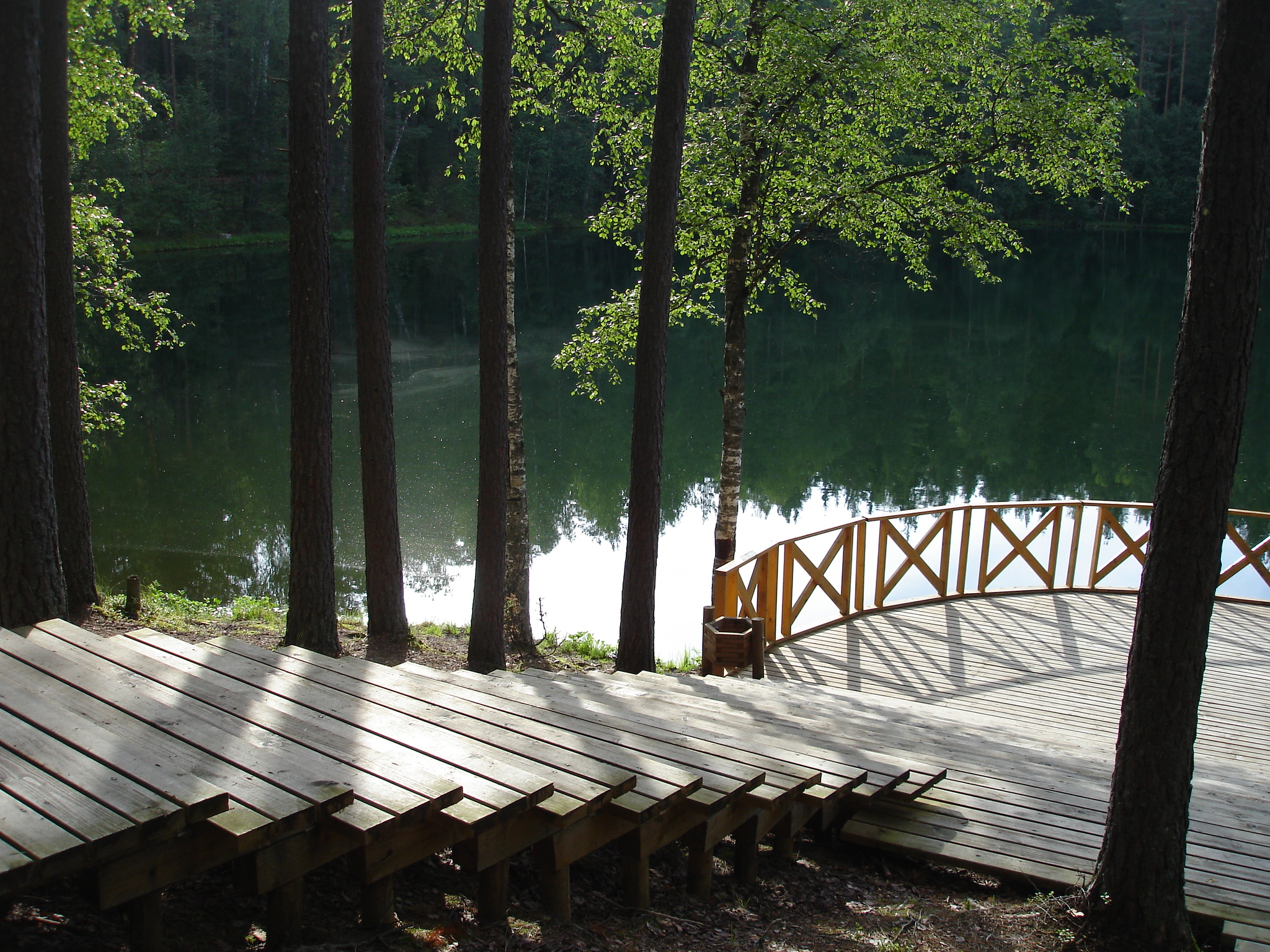 Čortoks (Velnezers), Latvia.